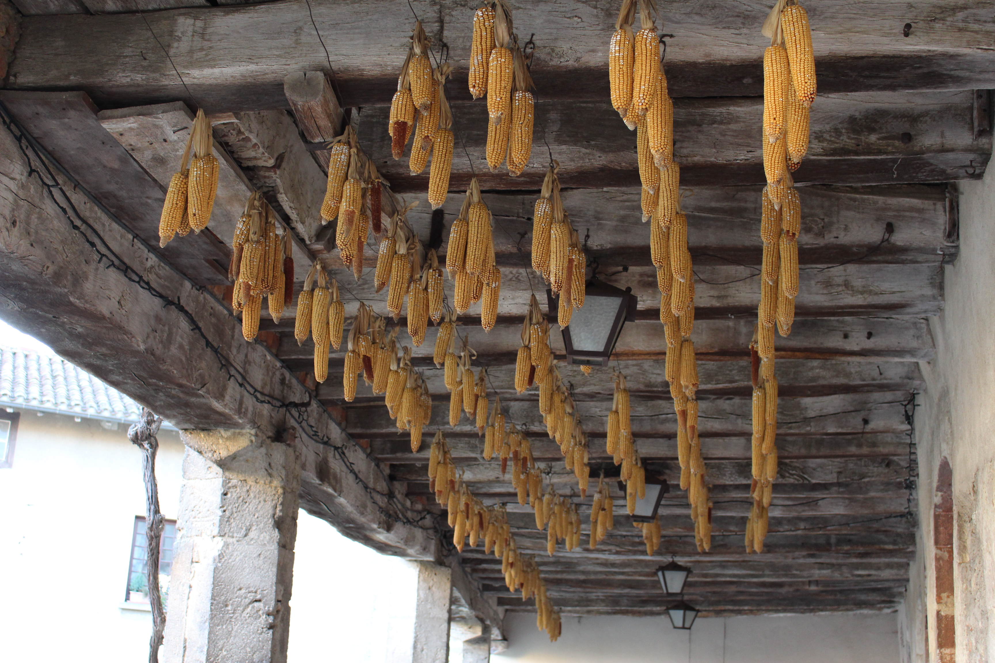 Drying maize at the Hostellerie du Vieux Pérouges. Pérouges, France.